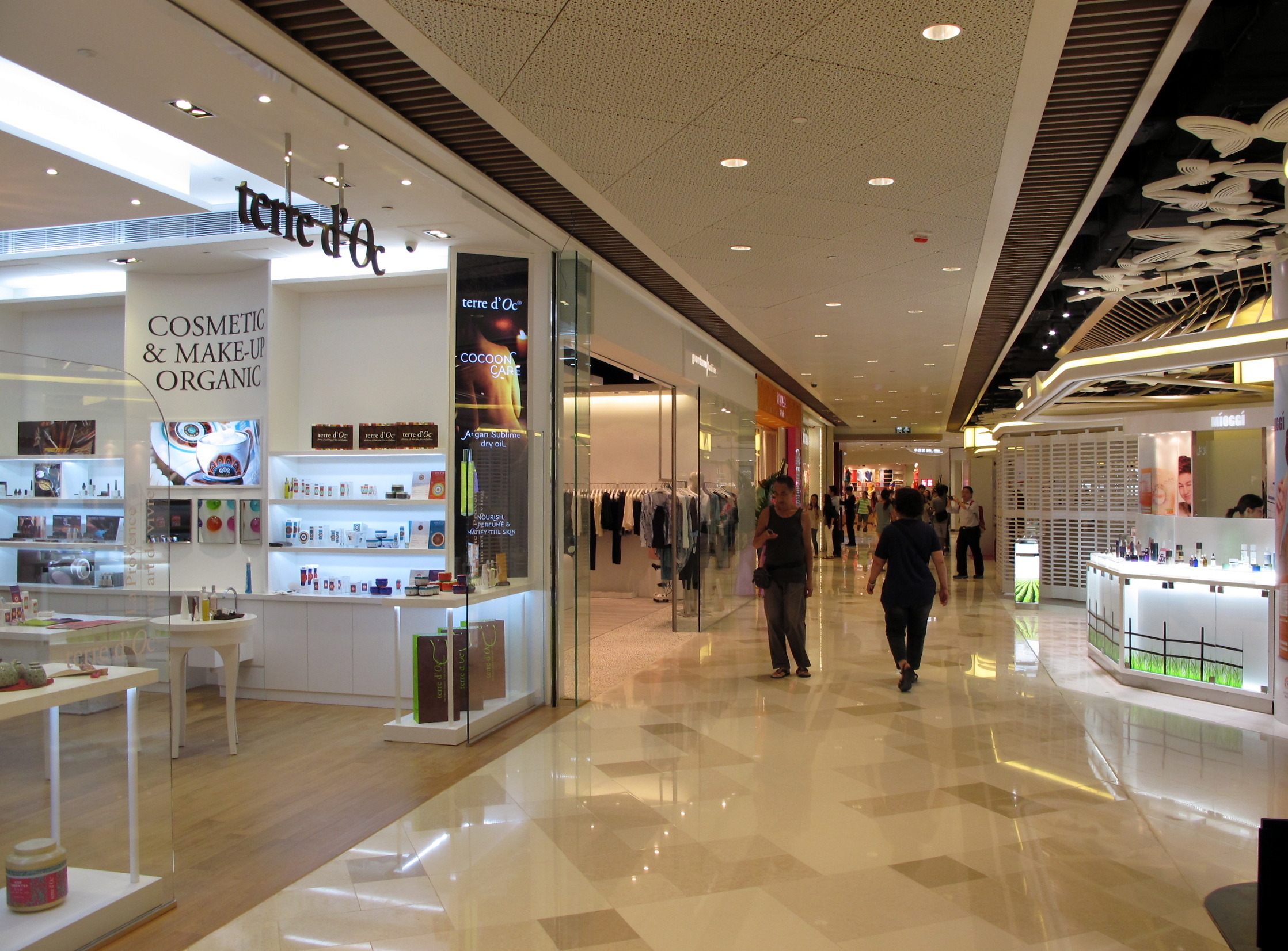 V City MTR 層